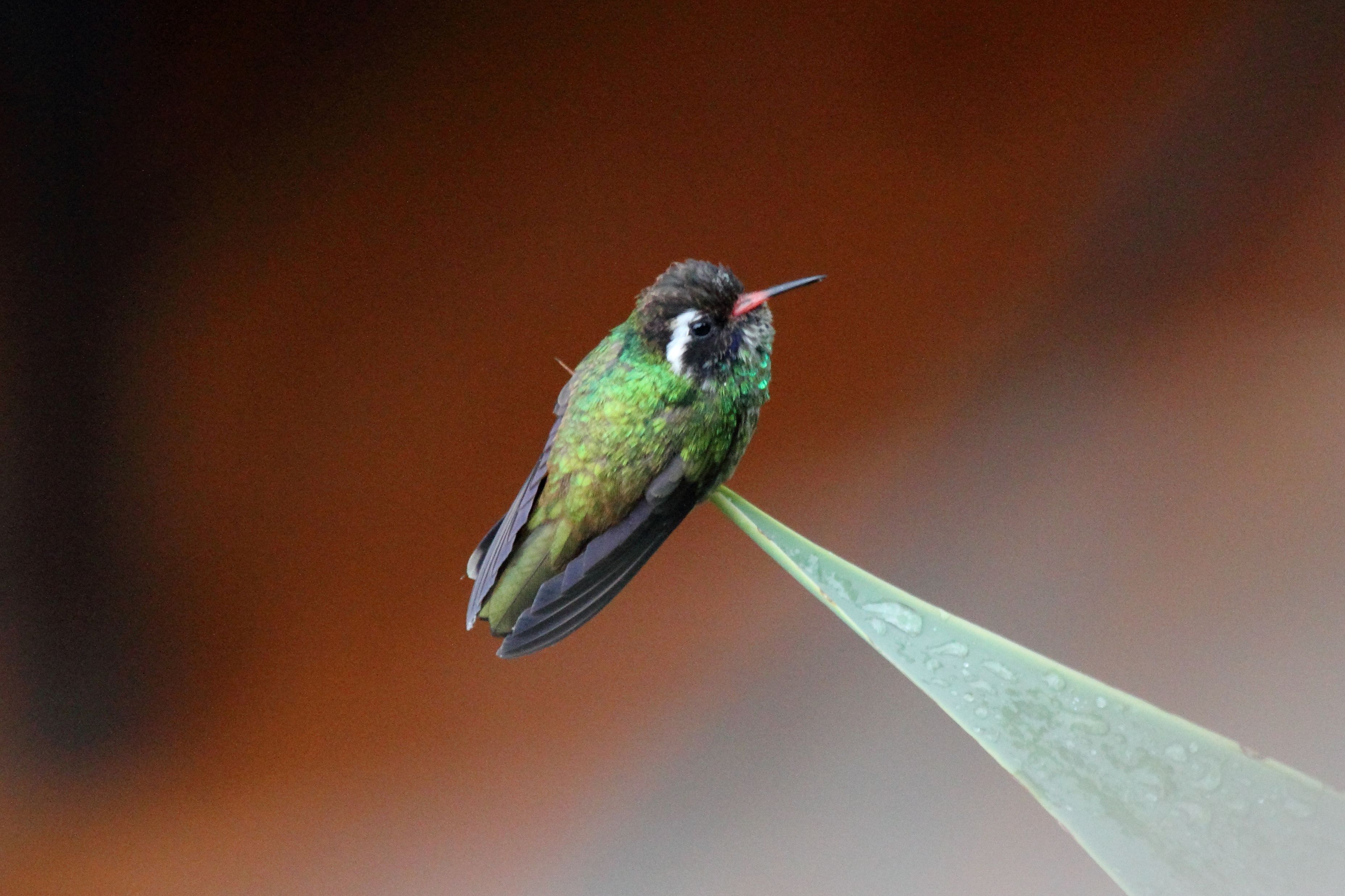 White-eared Hummingbird (Basilinna leucotis).